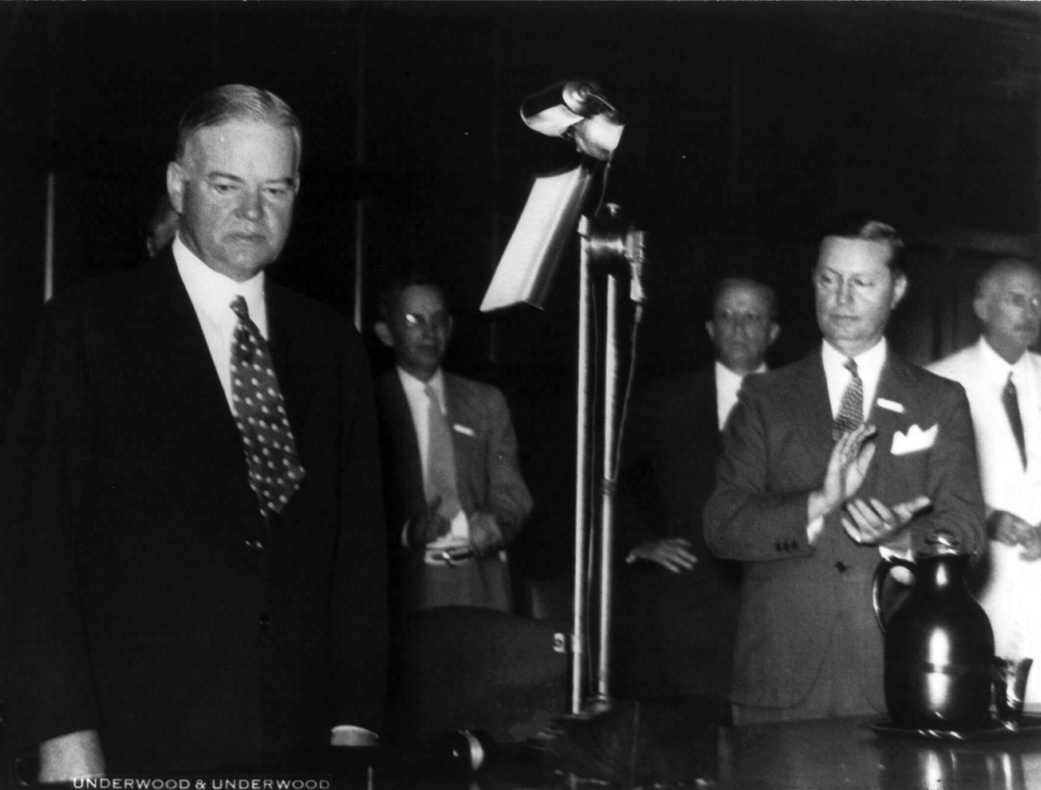 Herbert Hoover, U.S. President, half length, standing, facing right, giving opening address to the nine point prosperity conference and receiving applause from Secretary of Commerce Roy D. Chapin.